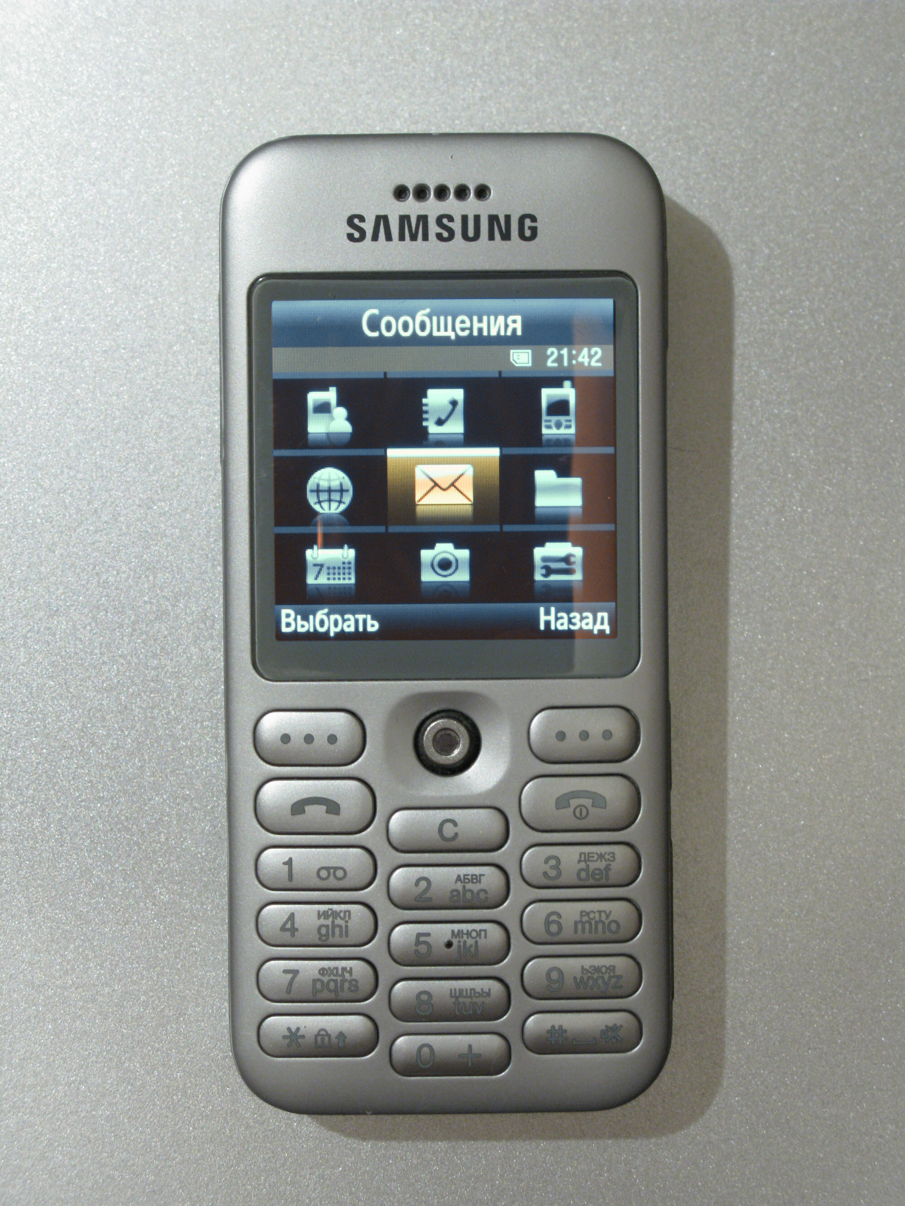 Samsung SGH-E590 mobile phone